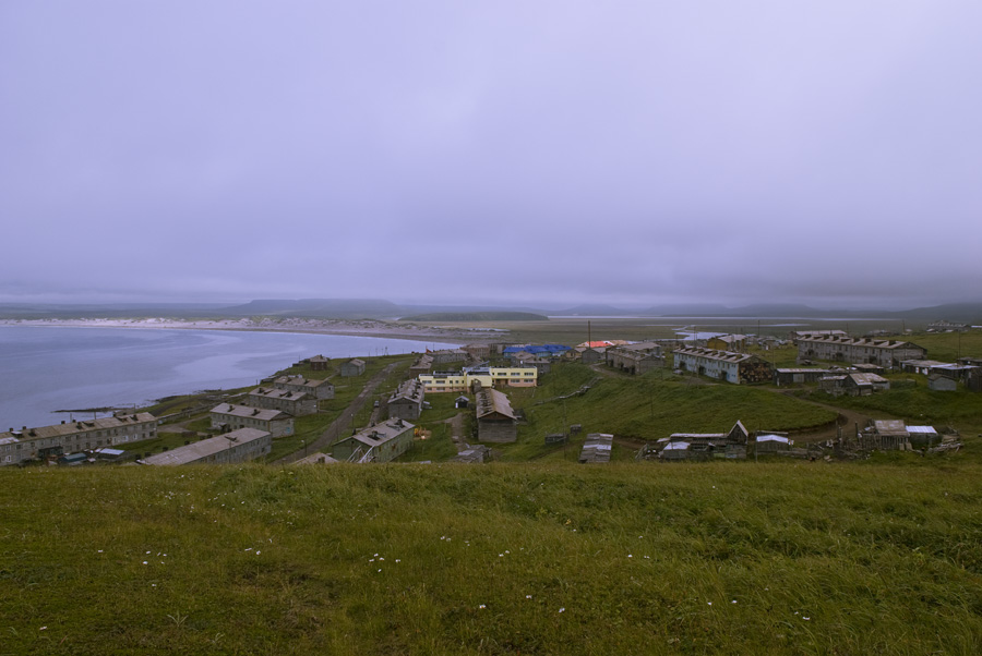 Nikolskoye settlement. The Komandorskie Islands.